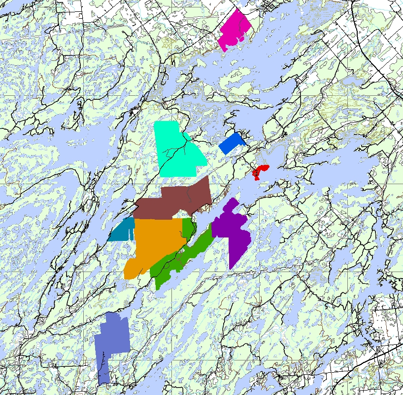 The current extent of QUBS Properties (2013)